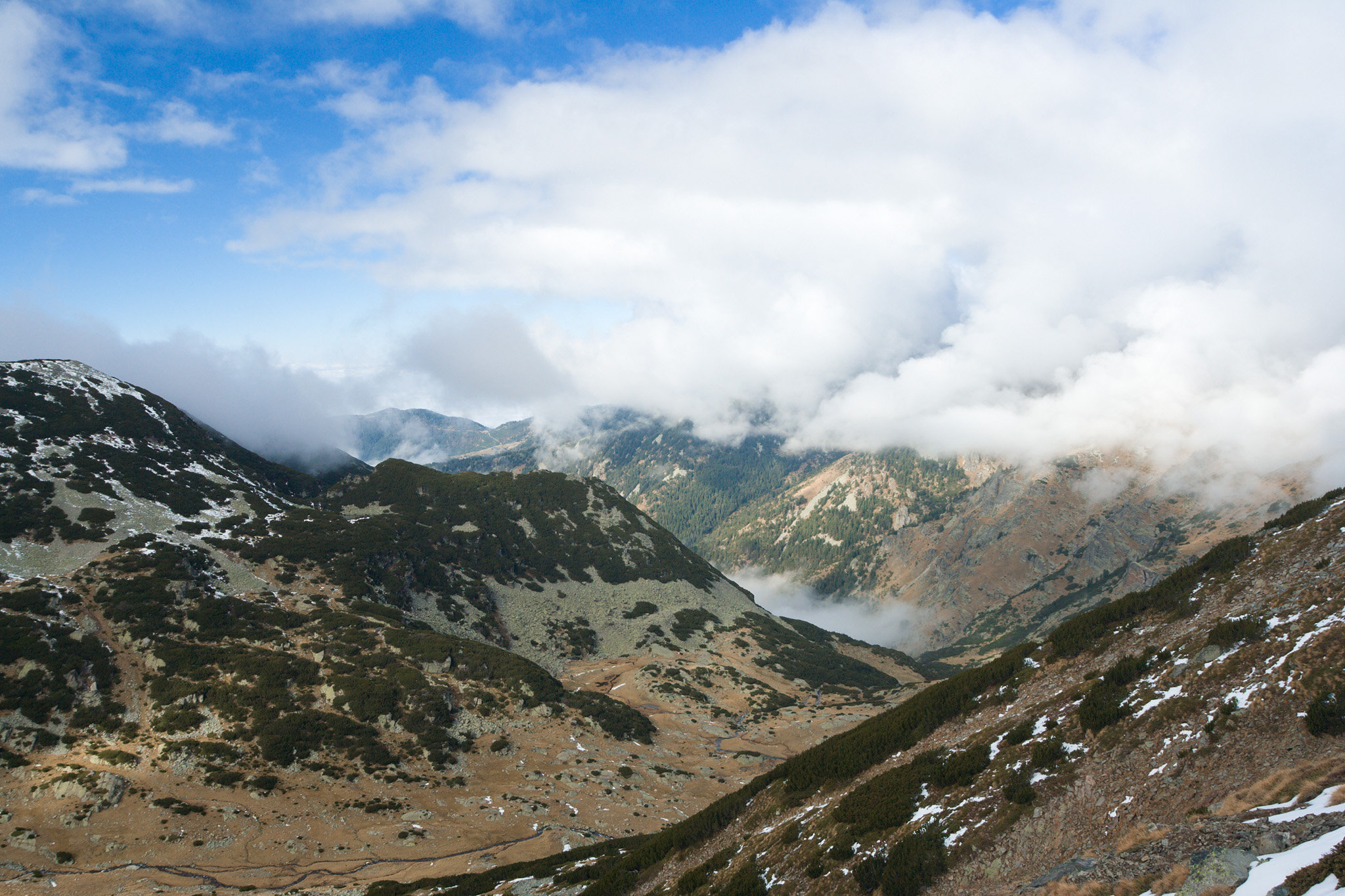 The valley of Vlahinska River, as seen from the Kabata saddleback